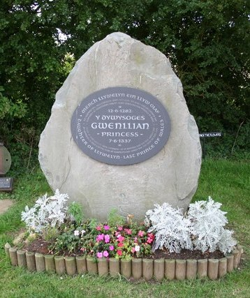 The last true Princess of Wales, near to Pointon, Lincolnshire, Great Britain. Commemorative plaque of Welsh slate to Gwenllian of Wales, daughter of Llywelyn ap Gruffydd, the last true Prince of Wales (known to the Welsh to this day as Ein Llyw Olaf - Our Last Ruler), and grand-daughter of Simon de Montfort. She was born at Garth Celyn, Aber, near Bangor in Wales in June 1282 and captured as a baby by King Edward I after the defeat and death of her father in 1283. She was obviously a threat to King Edward's power in Wales but he couldn't bring himself to have her killed. In order to ensure she remained childless, she spent the rest of her life in enforced imprisonment in Sempringham Priory where she remained for 54 years until her death in 1337. The monument was erected in 1995.